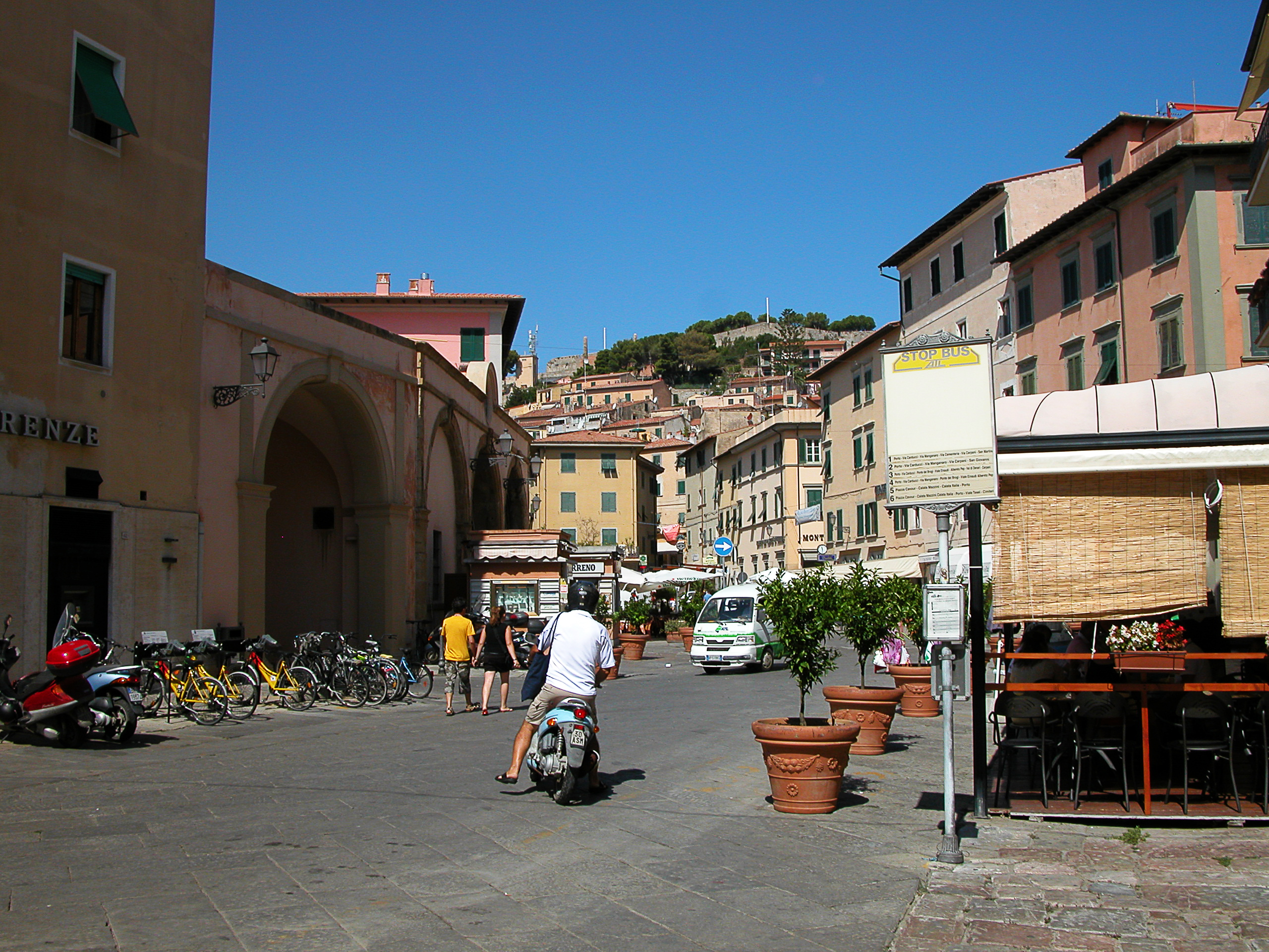 Street of Portoferraio